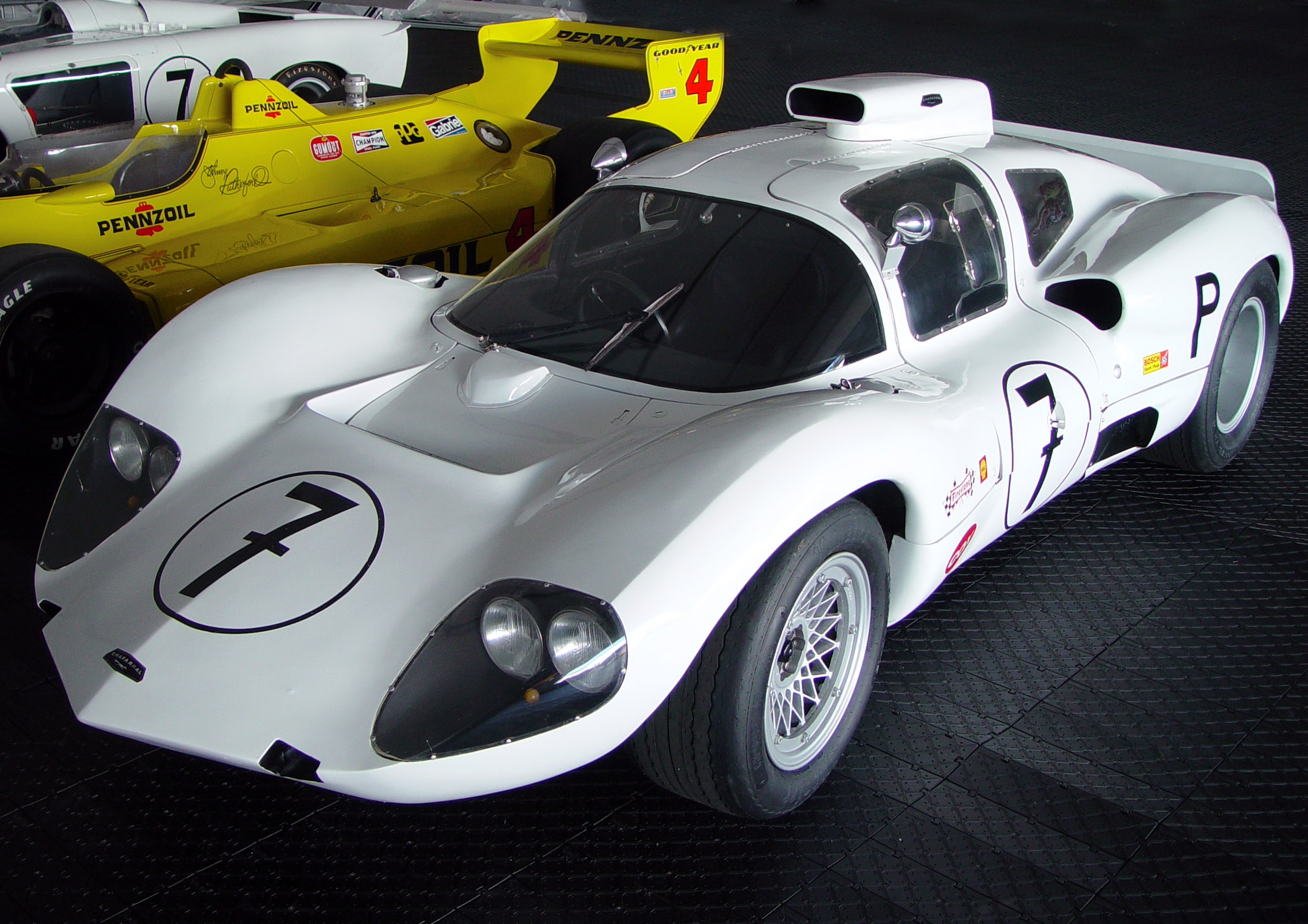 Chaparral 2D at the 2005 Monterey Historic